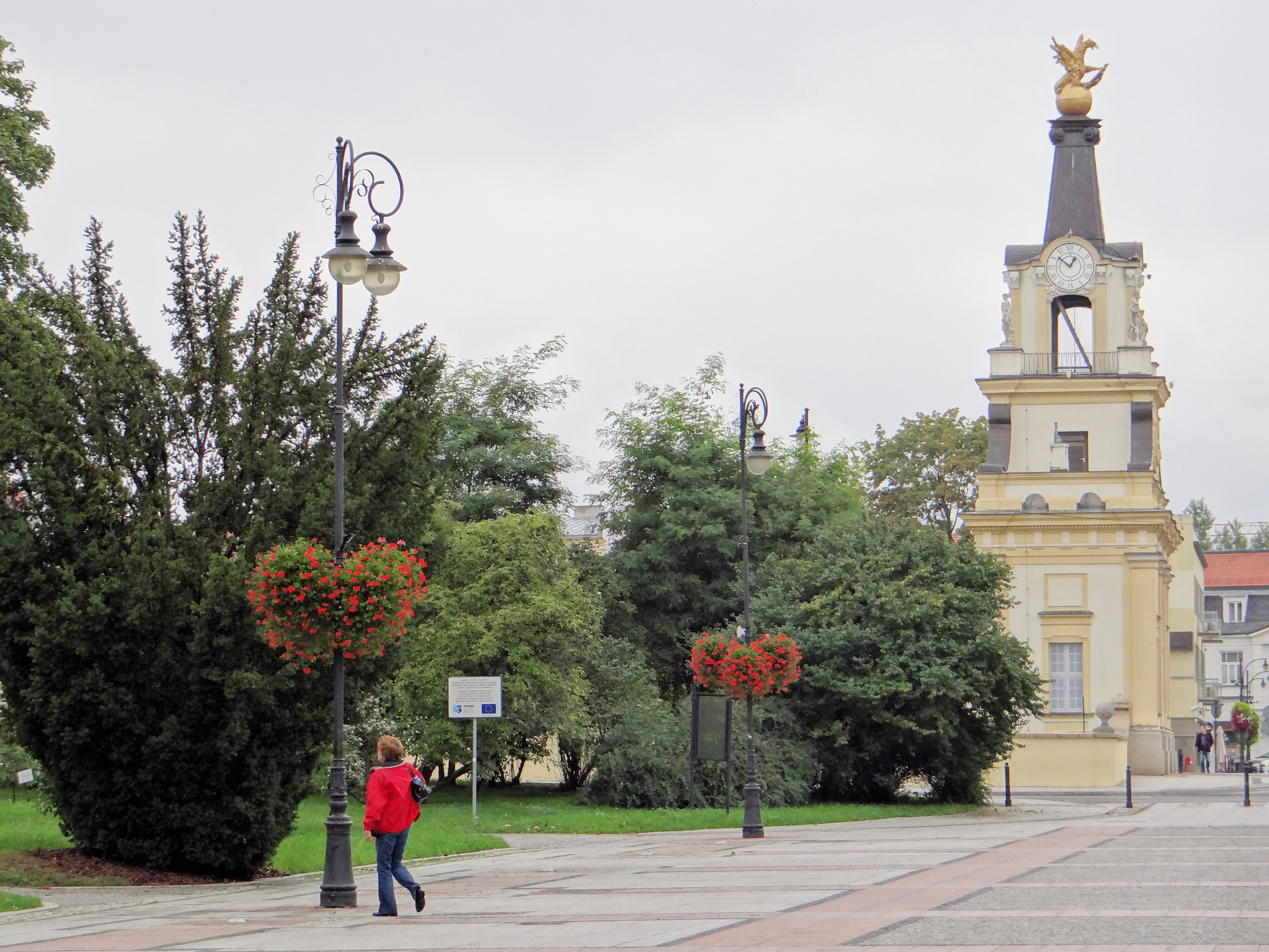 Park Poniatowskiego in Białystok